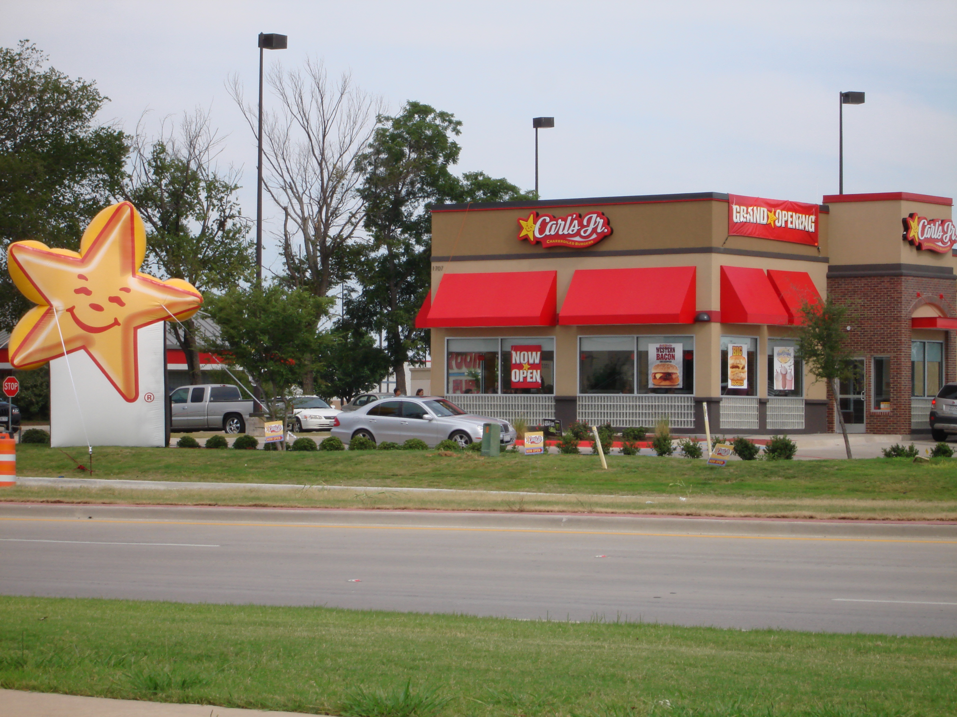 Carl's Jr. Restaurant in Denton, TX